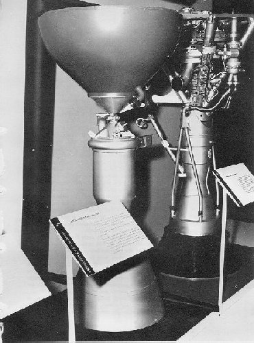 Foreground, Vanguard second-stage Aerojet LR52-AJ-1 (AJ10-118); rear, Vanguard first-stage General Electric XLR50-GE-2 (X-405)